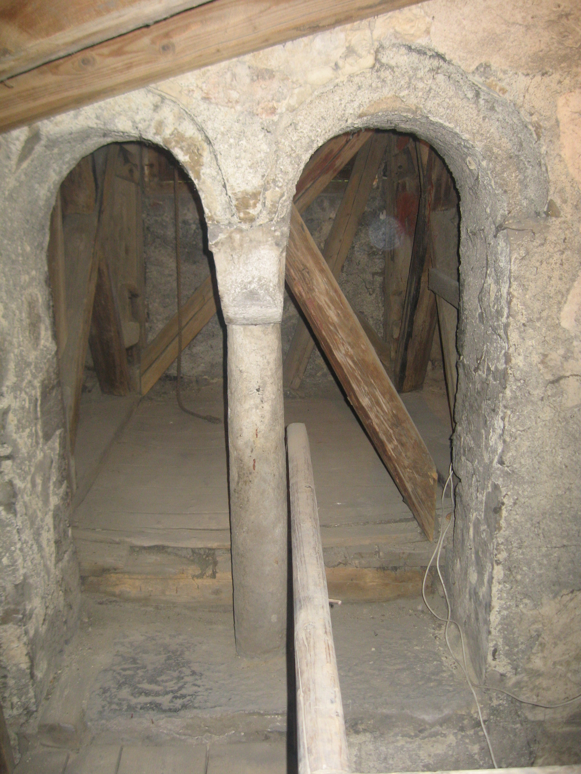 Romanesque window in the tower of the church in Světec